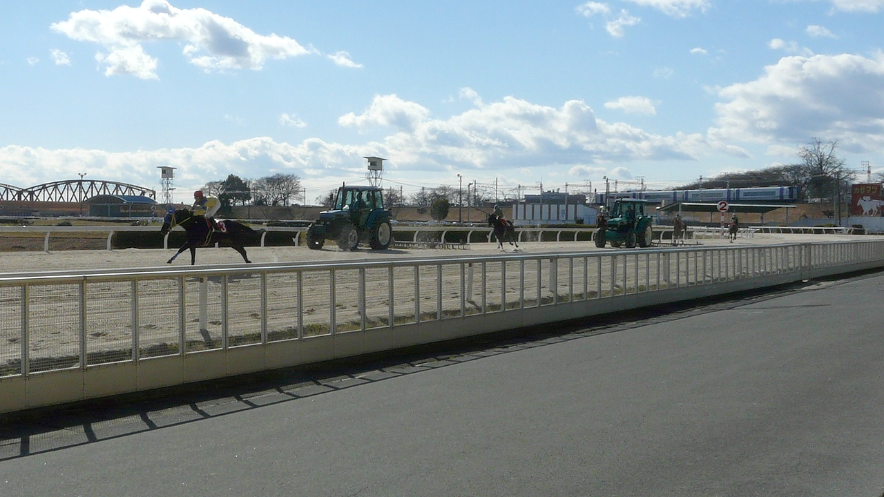 Kasamatsu_Race_Course04